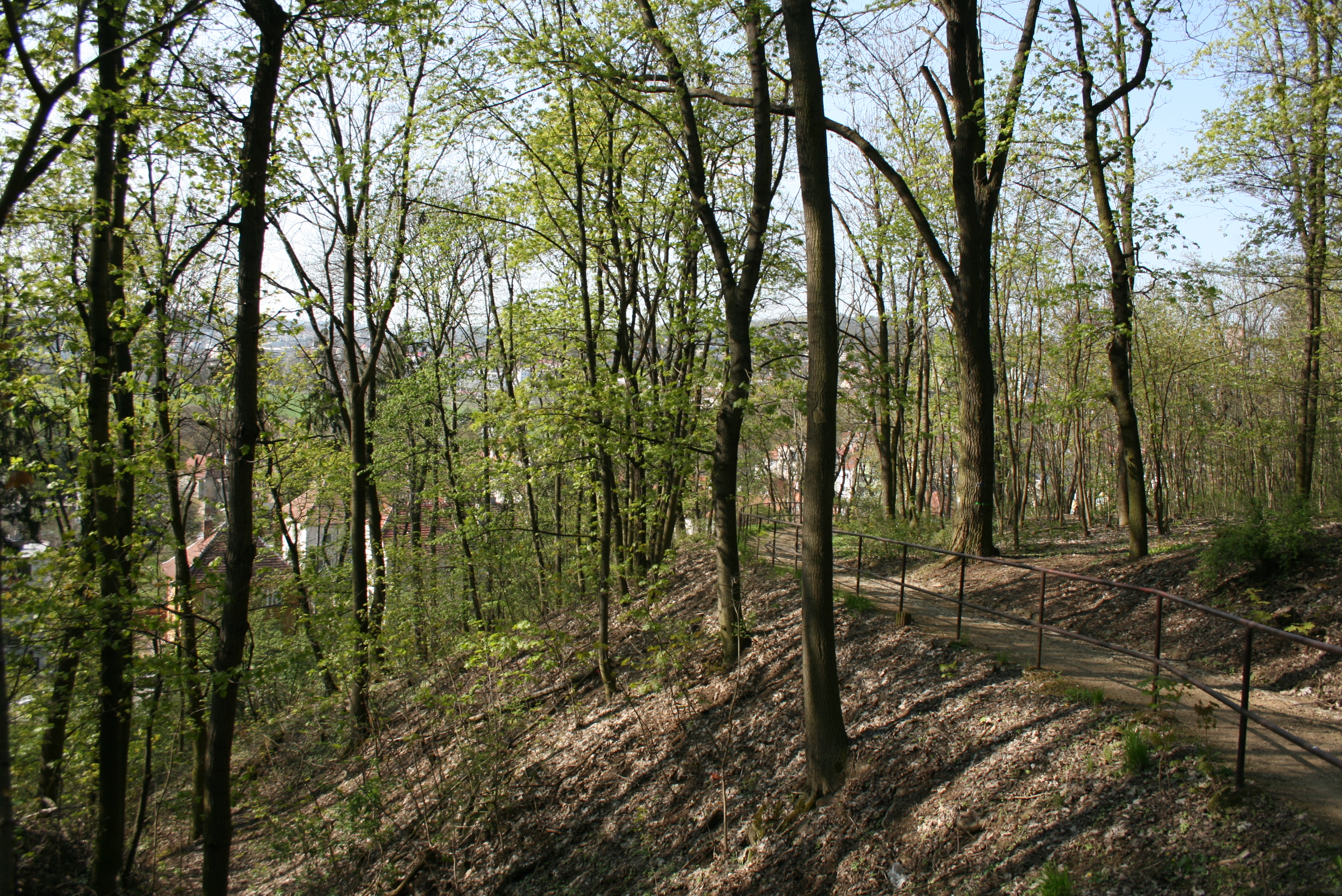 Willson's wood, a urban park in Brno, Czech Republic. Česky: Cesta ve Wilsonově lese, městském parku v Brně-Žabovřeskách.